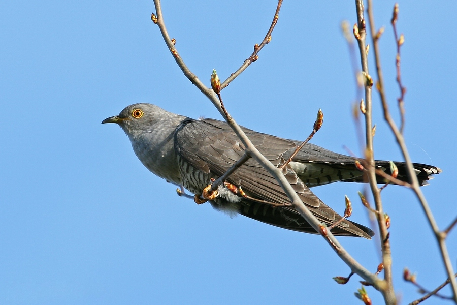 Coockoo (Cuculus canorus)